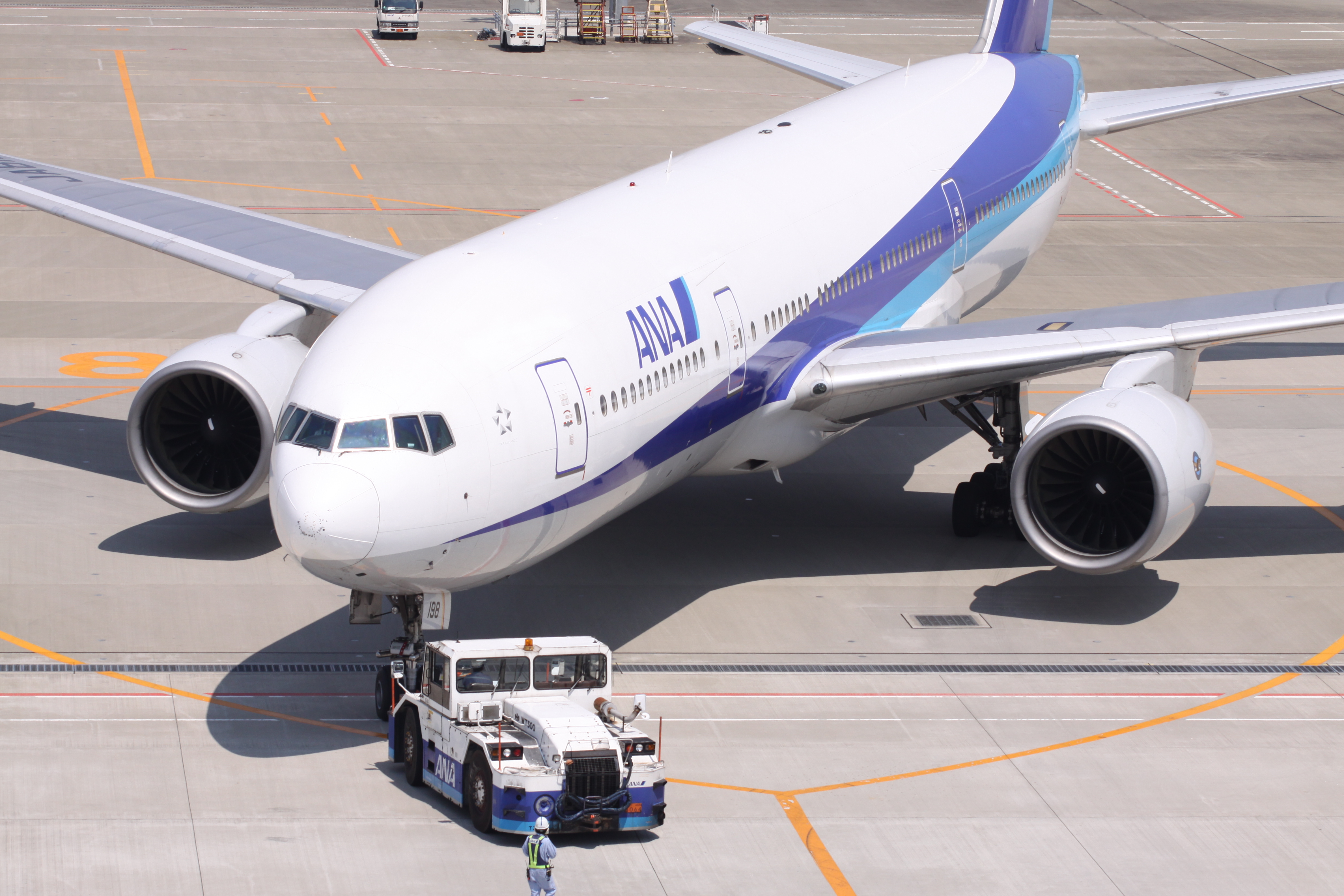 ANA B777-200(JA8198)